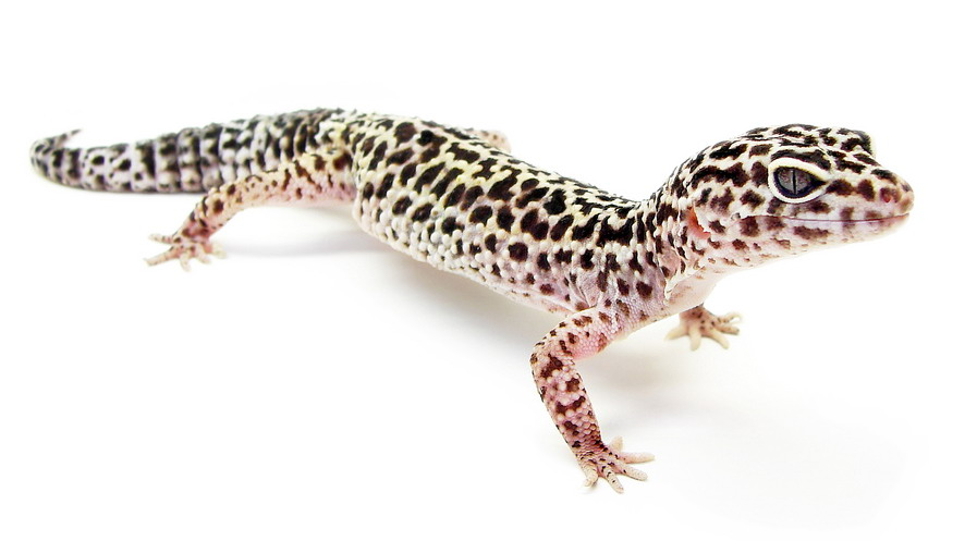 The common leopard gecko, Eublepharis macularius, is just one of several species of leopard geckos (genus: Eublepharis). It is, however, the only one found commonly in captivity, and is one of the most widely kept reptile species in the world. As a member of the subfamily Eublepharinae, it has eyelids, a characteristic not normally seen in geckos. It also lacks the toe pads that allow many other geckos to climb vertical surfaces. Rex is one of my adopted animals from an owner that did not want her anymore. I did not name her Rex, but decided to keep the name. She could use some water and food, but is in otherwise decent health. She has had difficulty shedding though, which is evident by the blunt tips on many of her toes. She is also not as cooperative during photoshoots as this picture may lead you to believe. She likes to move.